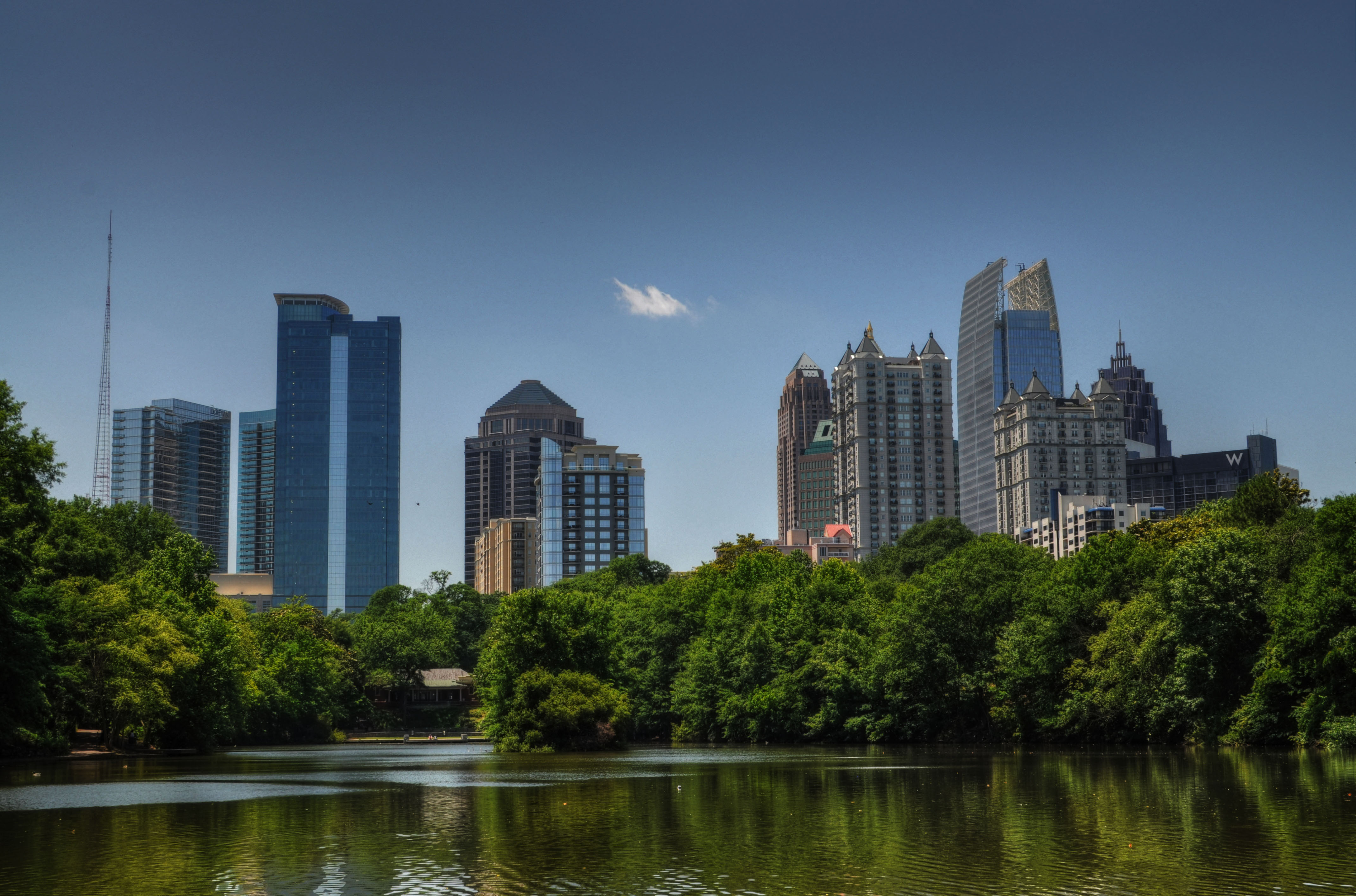 afternoon in Piedmont Park in Atlanta